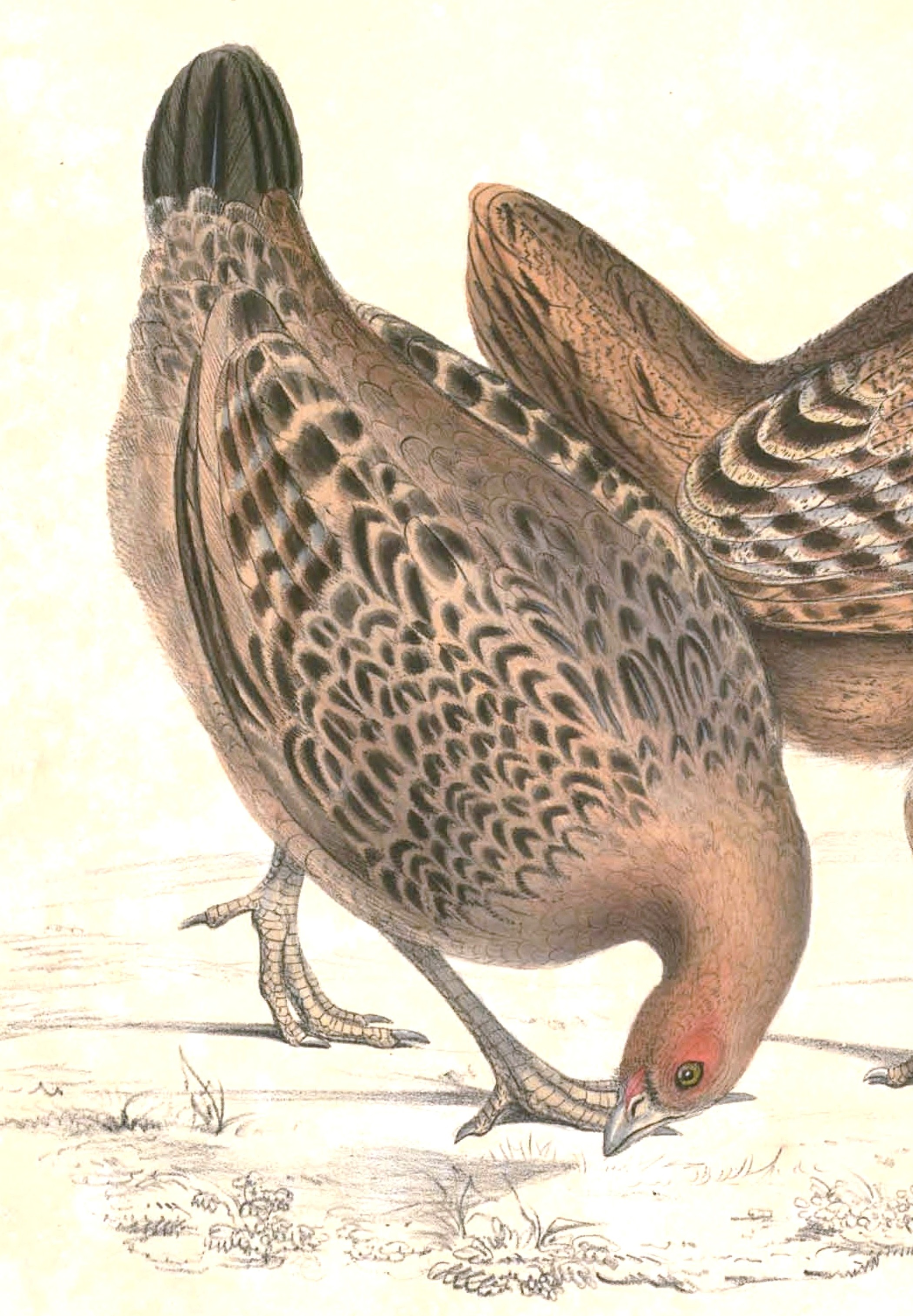 « Gallus bankiva » = Gallus gallus (Red Junglefowl) - female